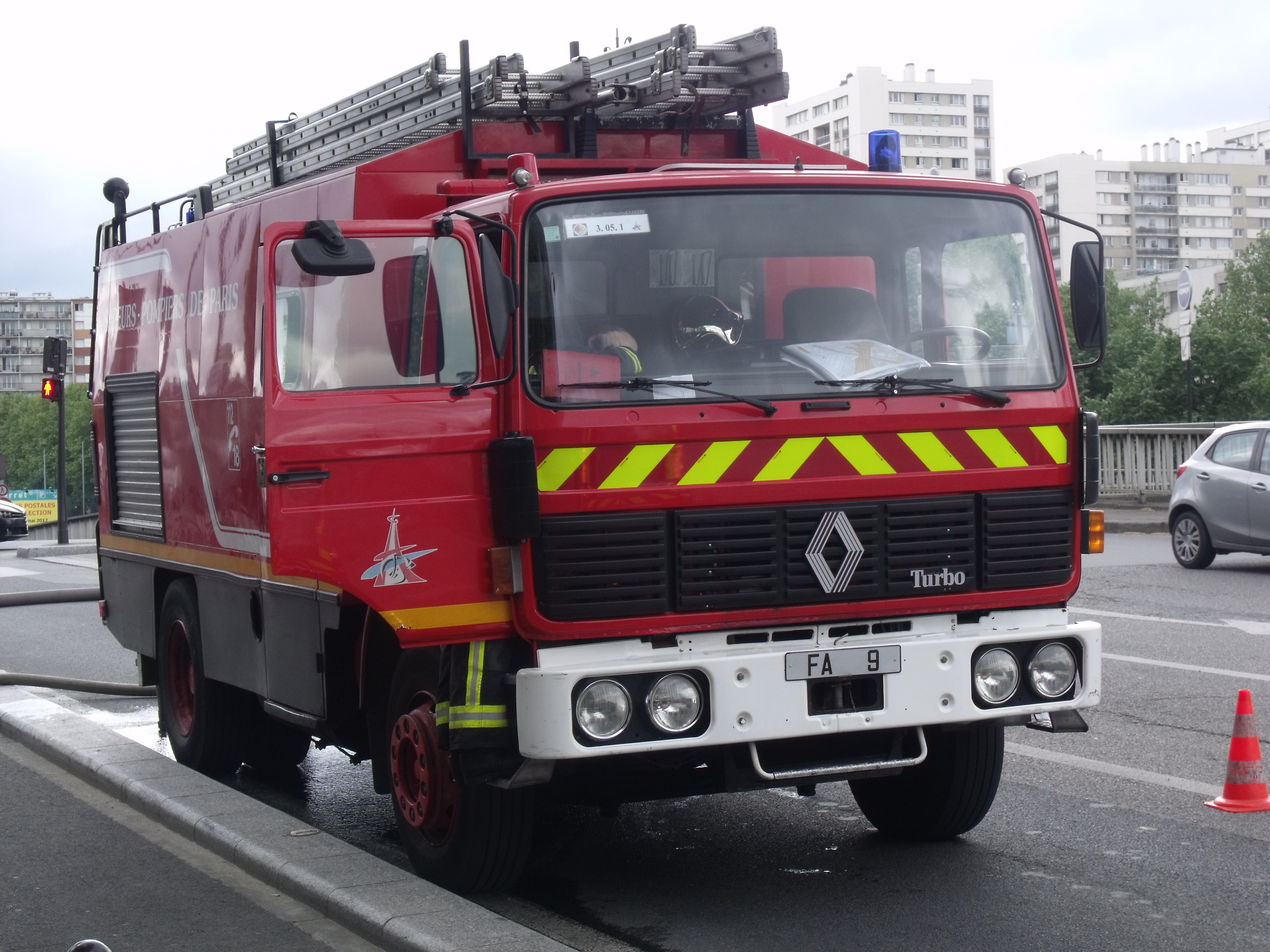 This fire truck is seen here in Paris for a hotel fire in porte d'Asnières district, west of Paris.